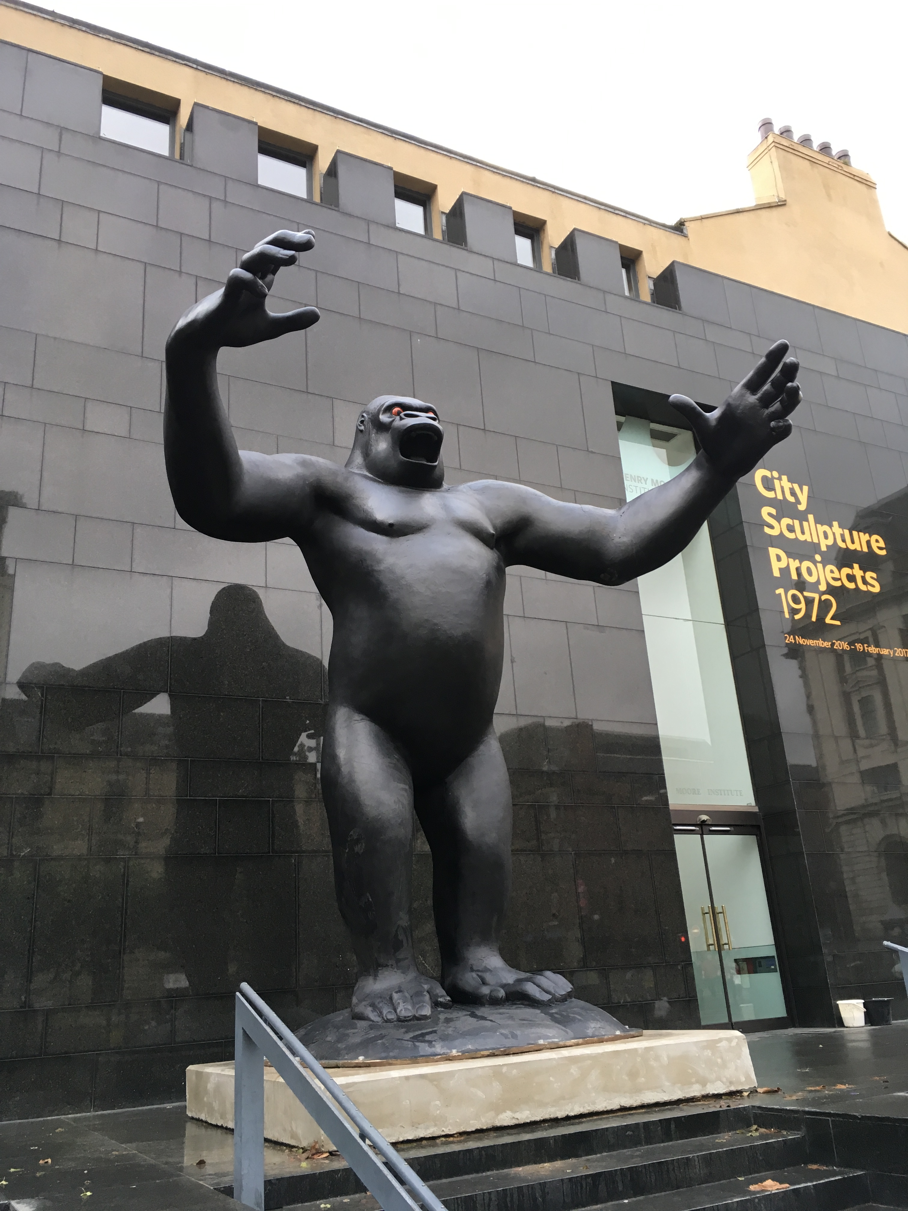 King Kong statue (1972) by Nicholas Monro, being installed outside the Henry Moore Institute in Leeds, England, on 14 November 2016.